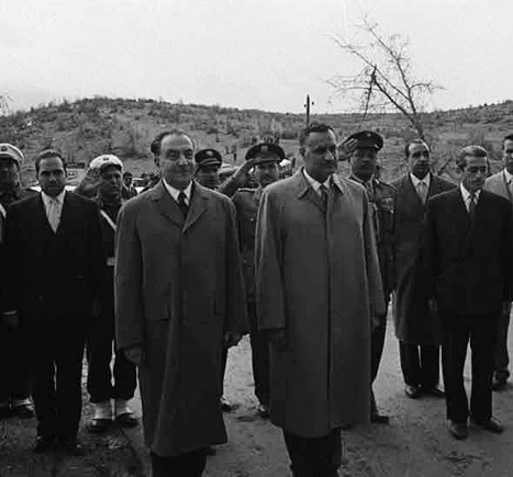 UAR President Gamal Abdel Nasser (right) and Lebanese President Fuad Chehab (left) negotiate end to Lebanon civil strife at the border between Syria (northern UAR) and Lebanon. UAR official Akram al-Hawrani is standing to Nasser's left and Interior Minister Abdel Hamid Sarraj is standing to Chehab's right.